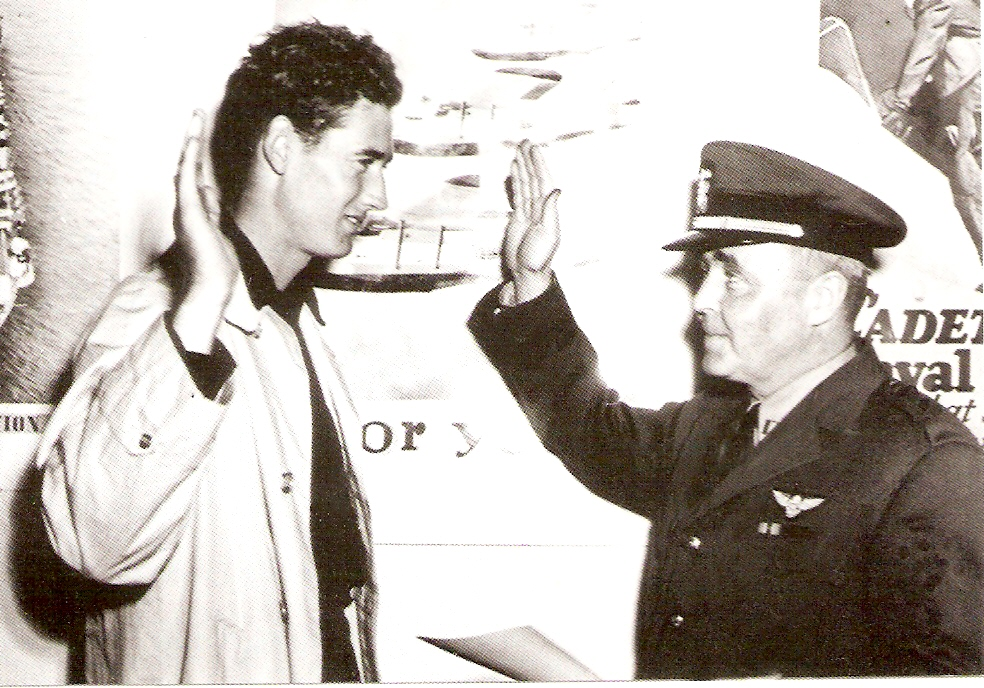 Ted Williams being sworn into the military on May 22, 1942.